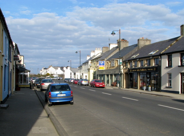 Main Street Dunfanaghy. Quiet little Donegal village.